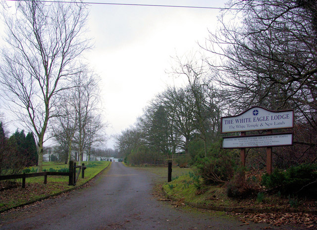 The White Eagle Lodge "The White Temple and New Lands". Learn all about it at